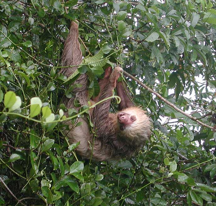 ´Nadine Hoffmann's Two-toed sloth in Costa Rica